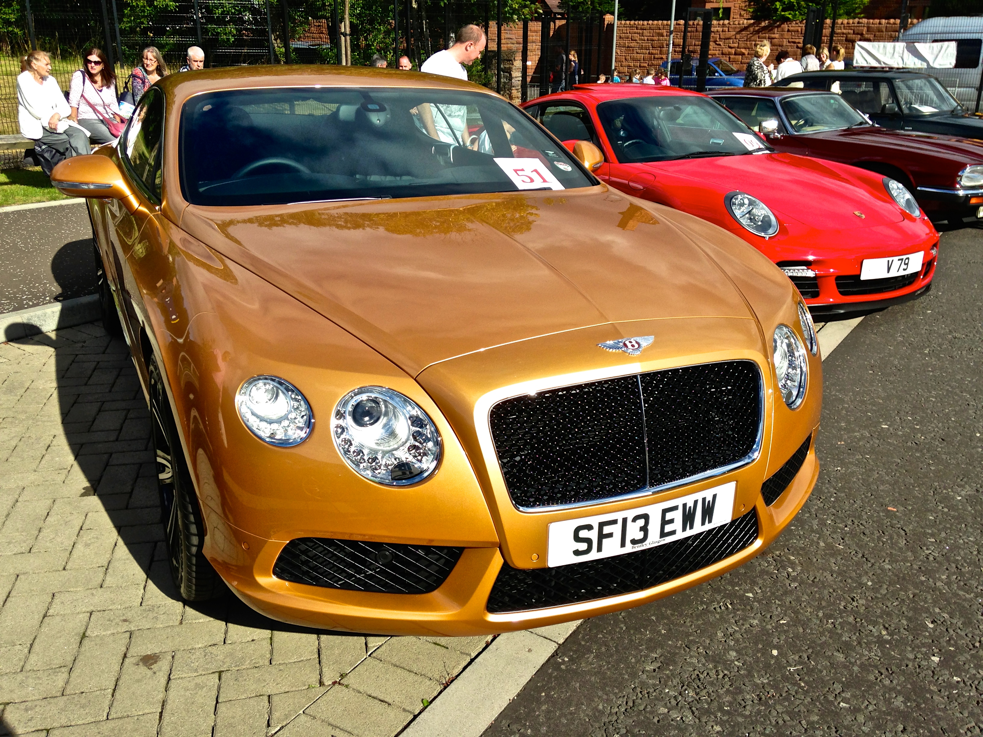 A Bentley Continental GT featured at the Bothwell Festival of Transport, as part of the Bothwell Scarecrow Festival